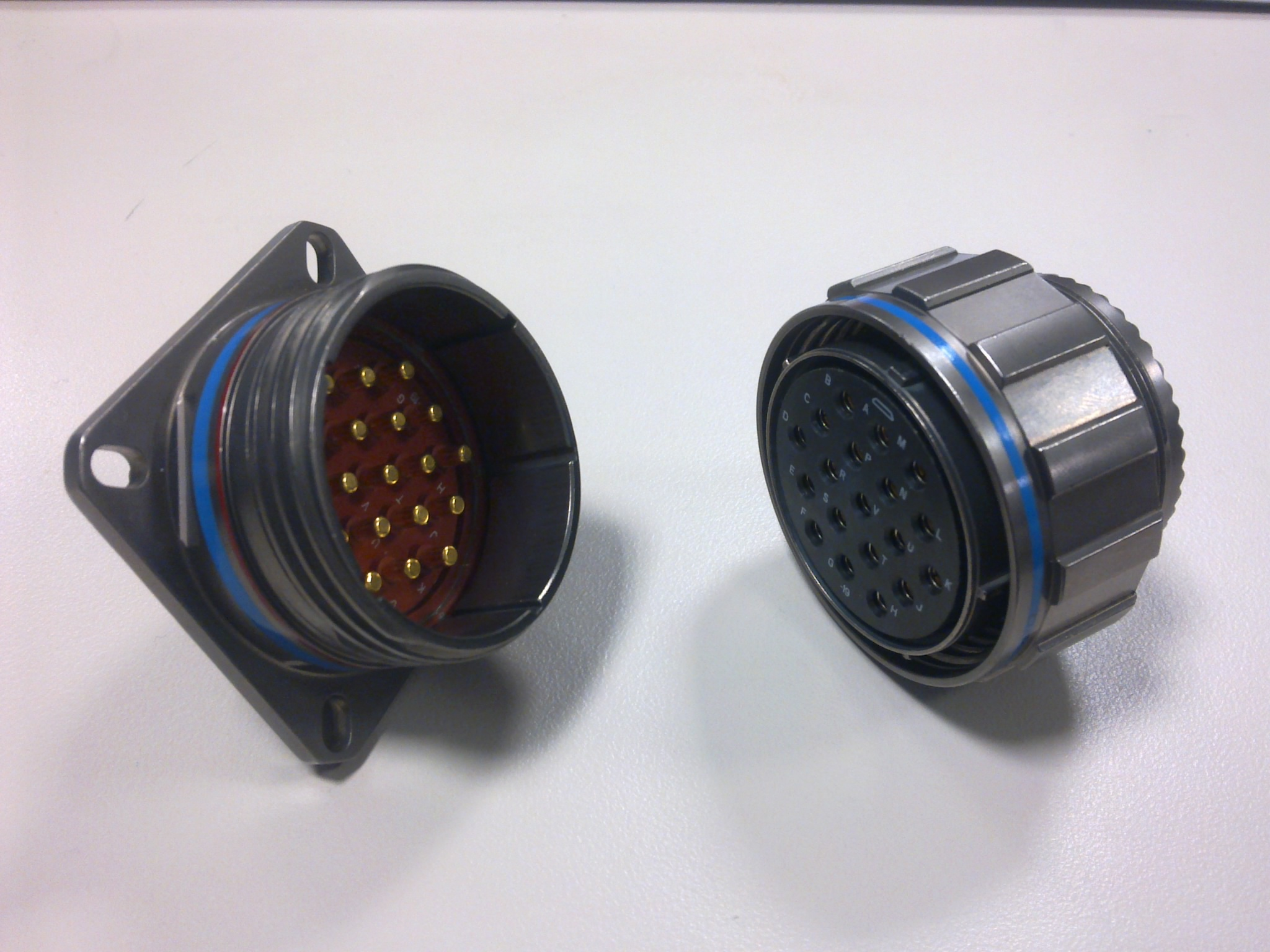 An example of a MIL-DTL-38999 connector. This example is part number D38999/26TJ19SN (plug) with the corresponding socket. The finish is an environment resisting type - Nickel fluorocarbon polymer, conductive plating.